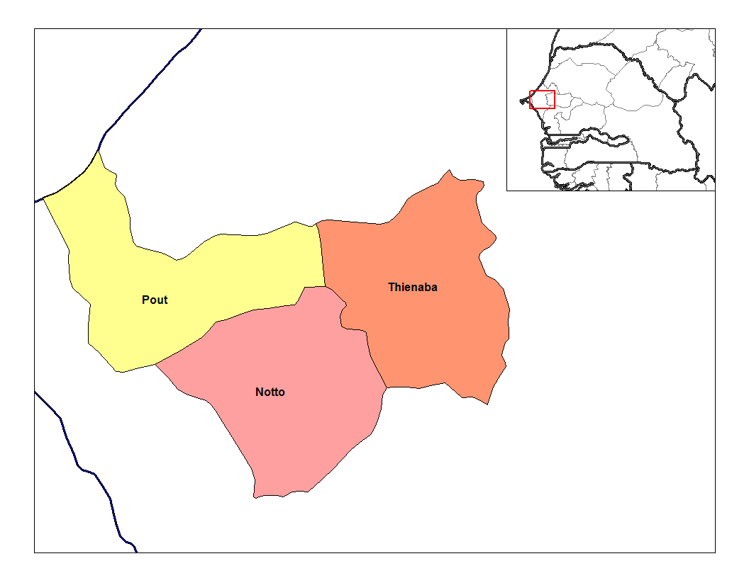 Map of the arrondissements of Thies department in Senegal.